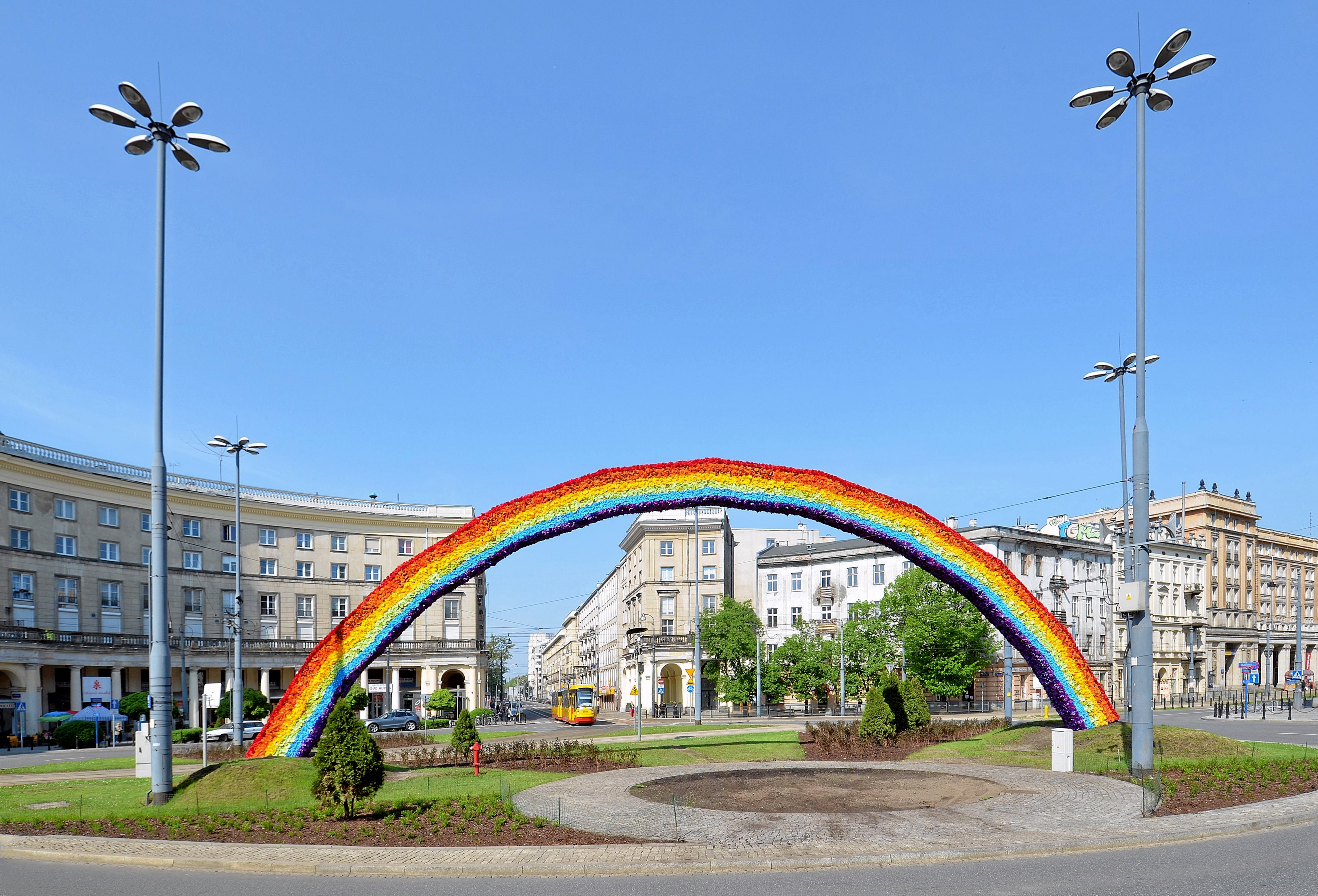 Zbawiciel (Saviour) Square in Warsaw